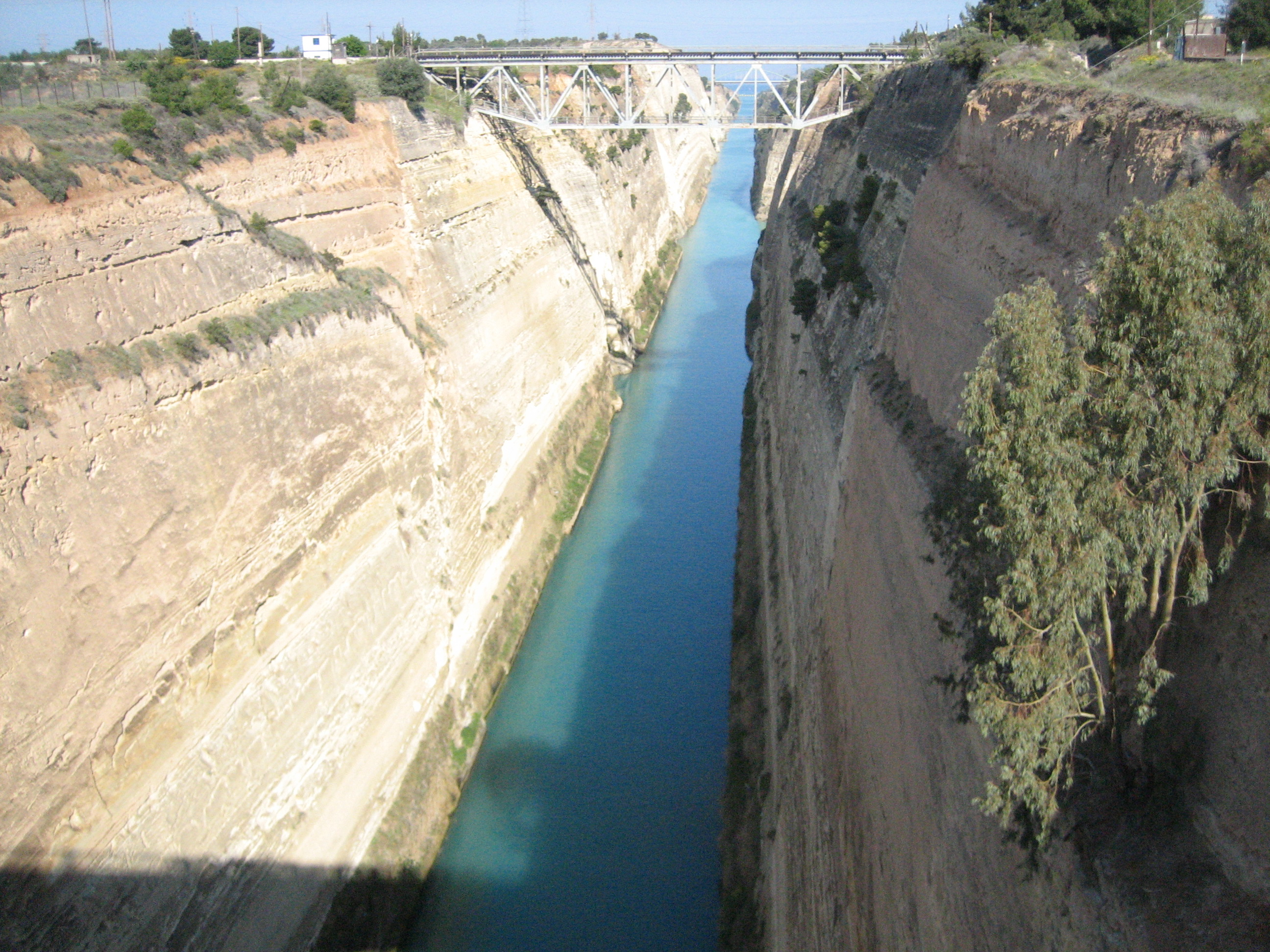 Corinth Canal at Corinth, Corinth, Corinthia, Pelopponese Periphery, Greece